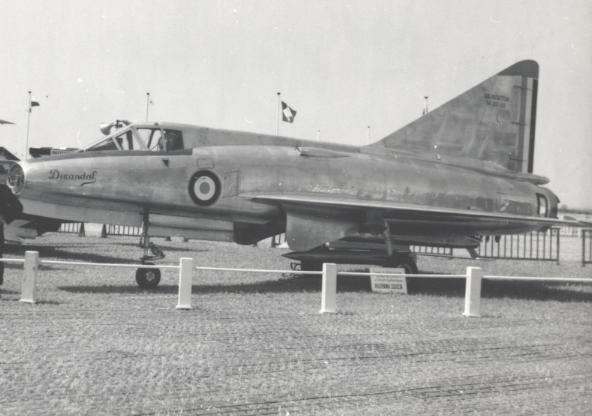 Sud SE-212 Durandal No. 02 at the Paris Air Salon at Le Bourget airpart